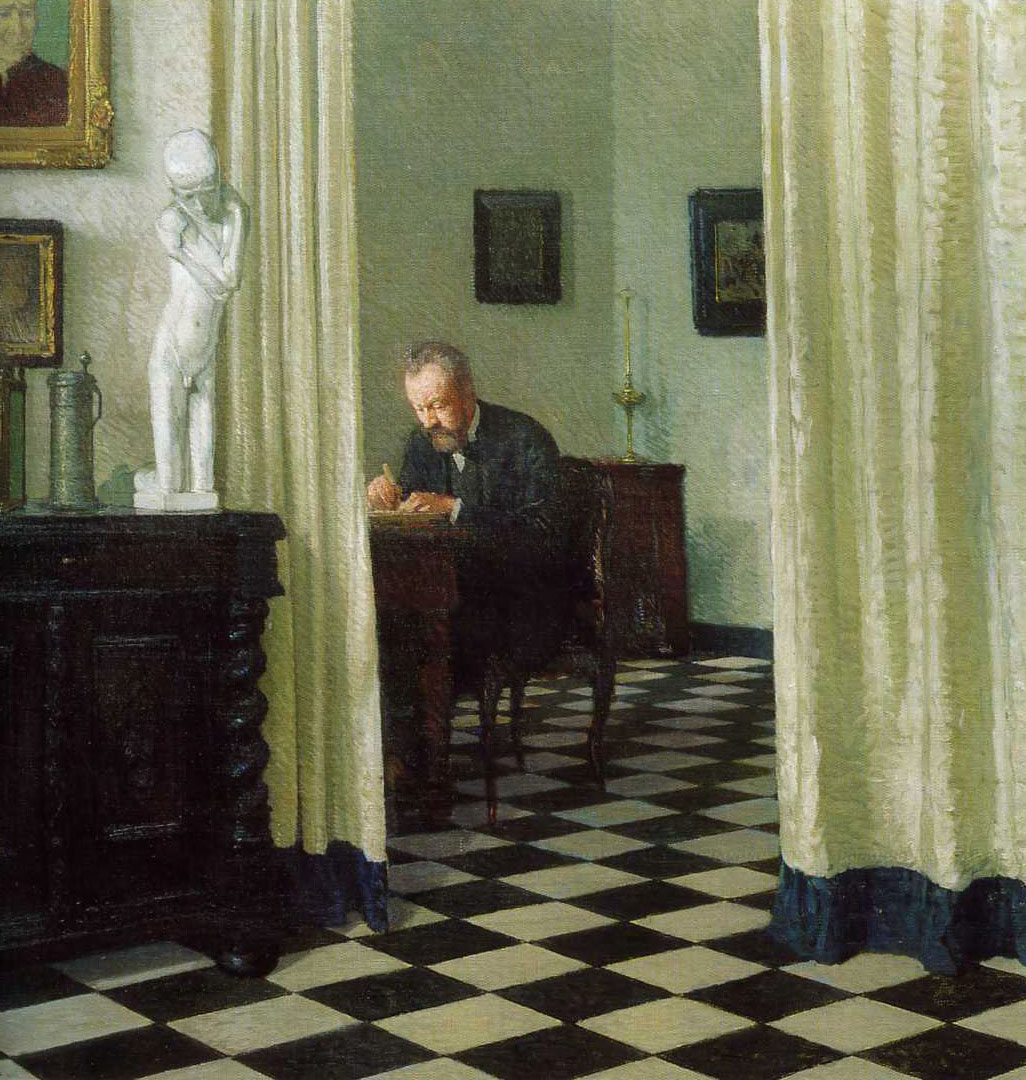 Self-portrait in his Study is a 1906 painting in the Gemäldegalerie der Akademie der bildenden Künste Wien, Vienna (GG-1338) that was exhibited at the National Gallery, London, Facing the Modern: The Portrait in Vienna 1900.